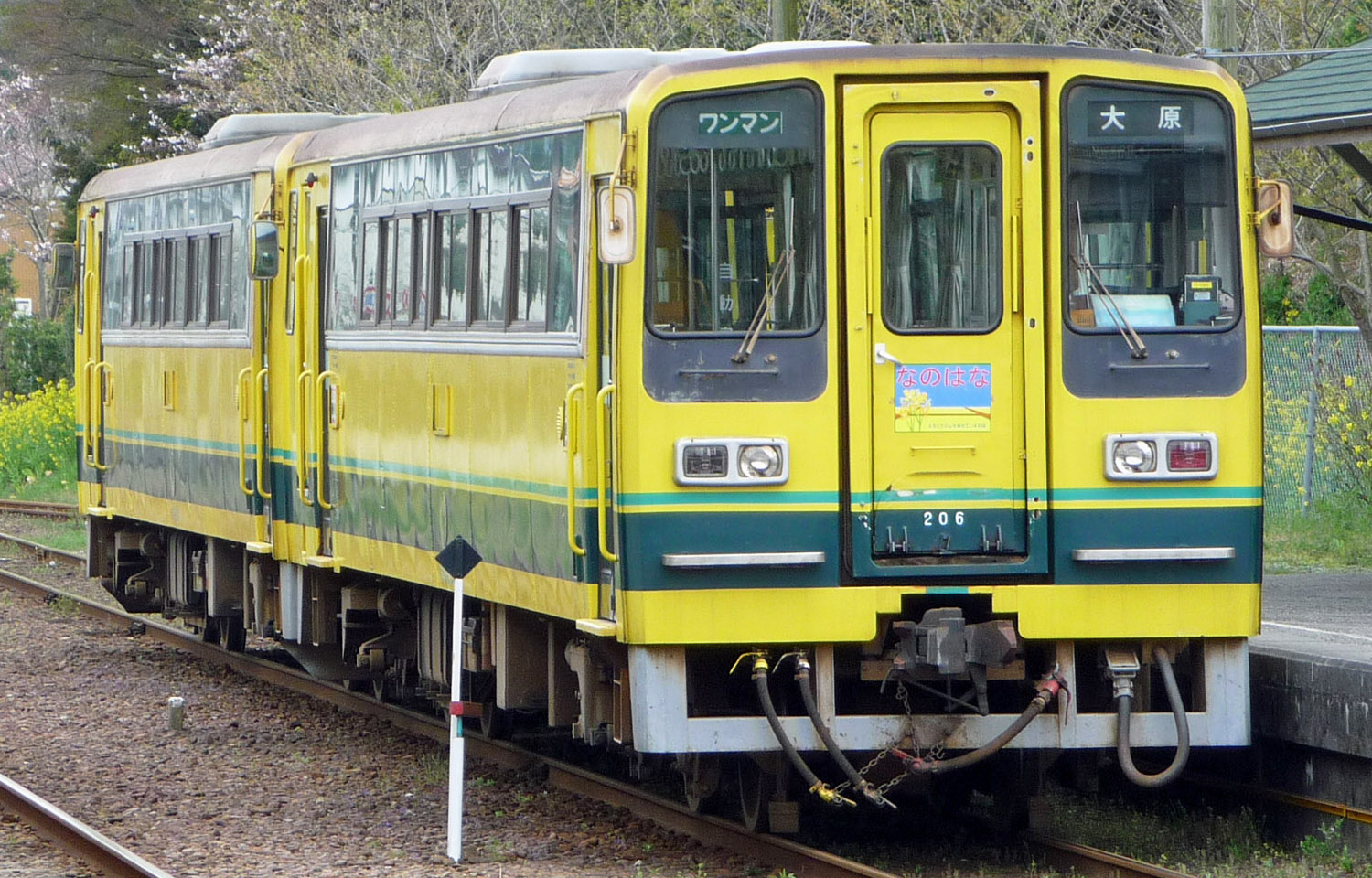 Isumi Railway 206.